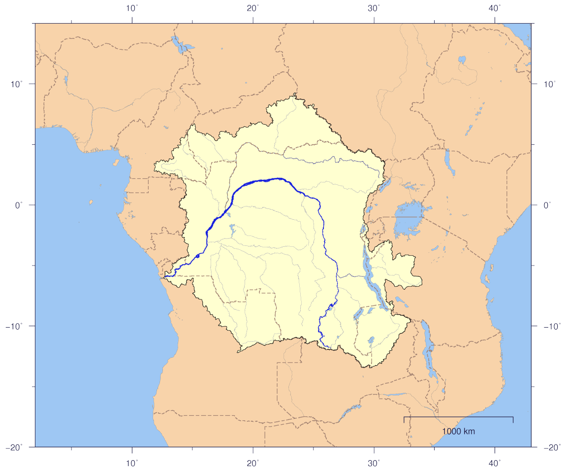 Course and Watershed of the Congo and Lualaba River with political boundaries.